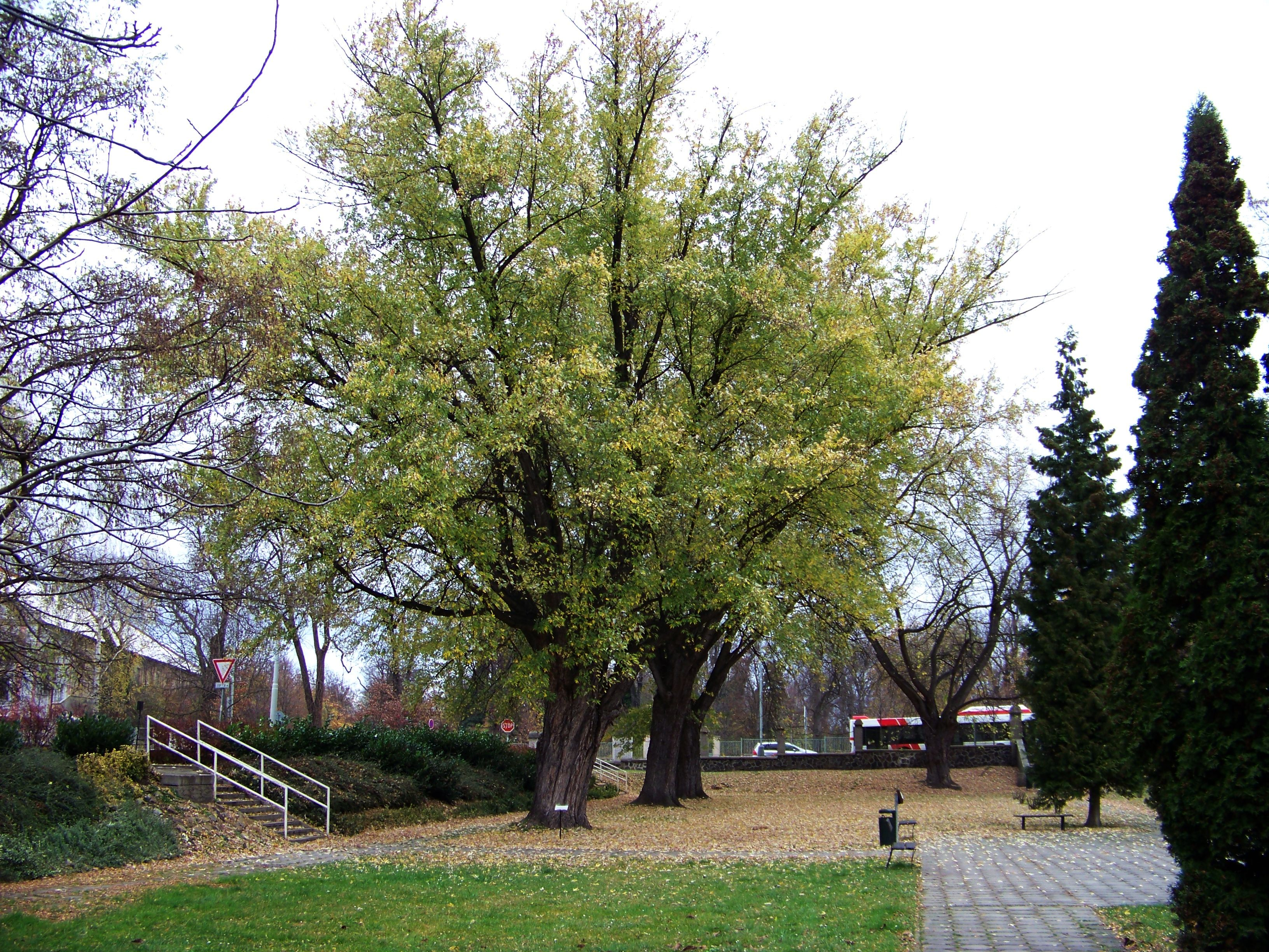 Prague-Čakovice, Czech Republic. Sady Husitské revoluce, trees.